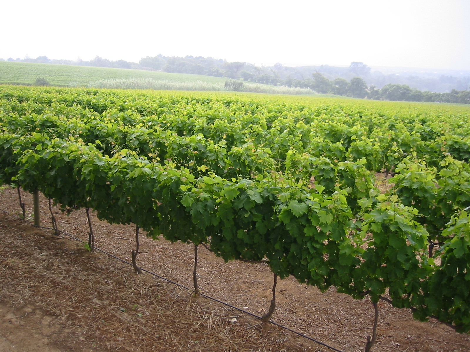 This is a vineyard of Groot Contstantia. The story of Groot Constantia, the finest surviving example of Cape Dutch architecture and one of South Africa’s foremost historical monuments and tourist attractions, goes back to 1685. The first owner was Simon van der Stel. He arrives in Table Bay as Commander of the Cape in 1679. Groot Constantia was sold to the Cape Government for £5 275 at a public auction in 1885. They still own it today. More about Van der Stel